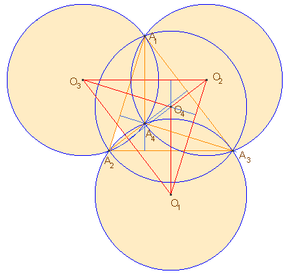 An orthocentric system with the circumcircles of every three points out of the four.